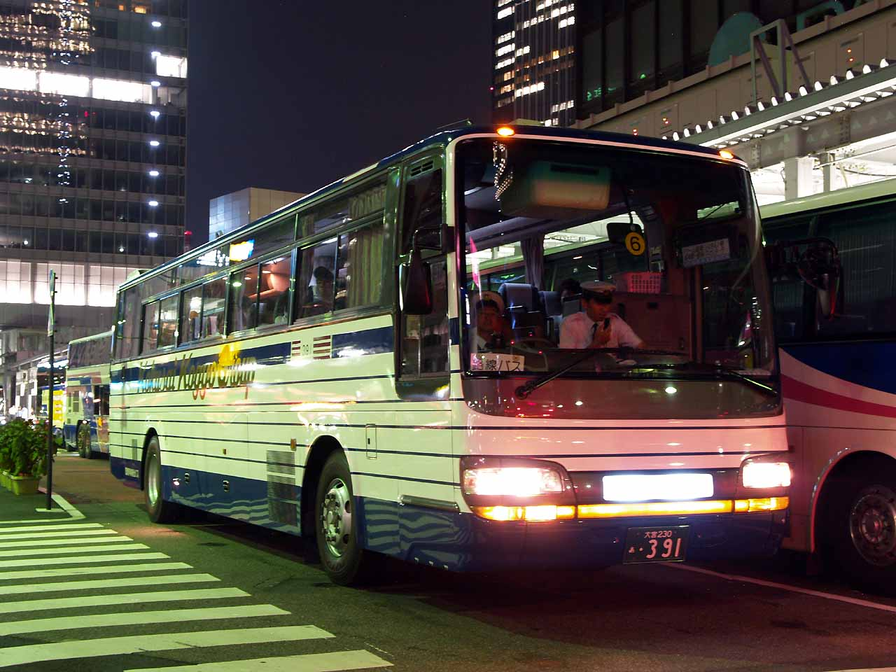 Fleet of Kokusai kogyo sightseeing bus, operated in overnight express bus "Dream Morioka". Model: Hino Selega R KL-RU4FSEA License plate: STO230 A-391 Place: Tokyo station Yaesu side bus terminal